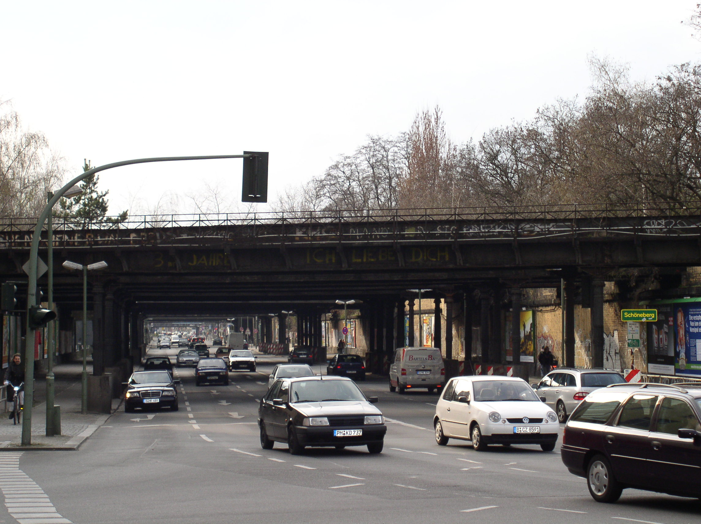 Yorckbrücken at the Yorckstraße in Berlin